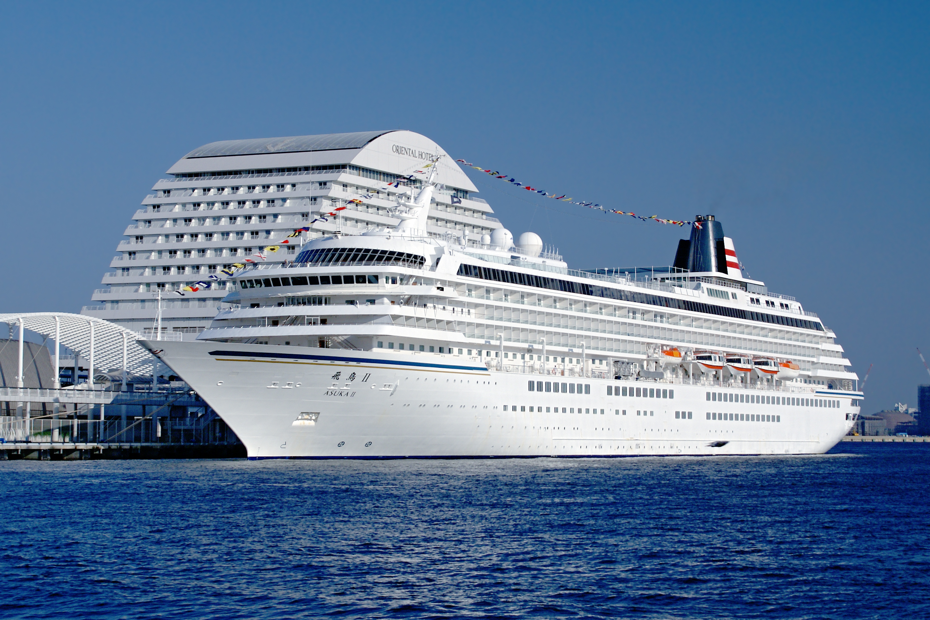 "Asuka II" who anchors at the wharf "Nakatottei" of the Kobe harbor (Kobe, Hyogo prefecture, Japan)